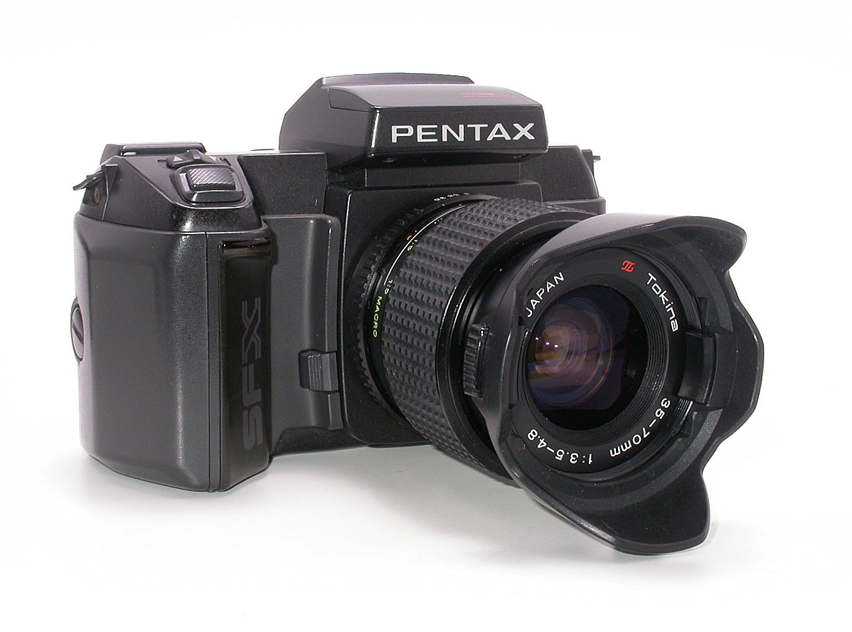 Pentax SFXn (aka SF1n) SLR camera. Однообъектинвная зеркальная фотокамера Pentax SFXn (на рынке США известна как SF1n).